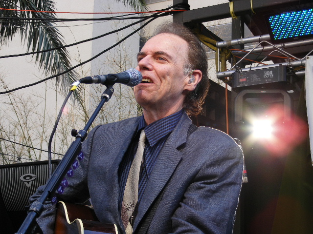 John Hiatt performing at South by Southwest (SXSW) 2010. Photo by Ron Baker.